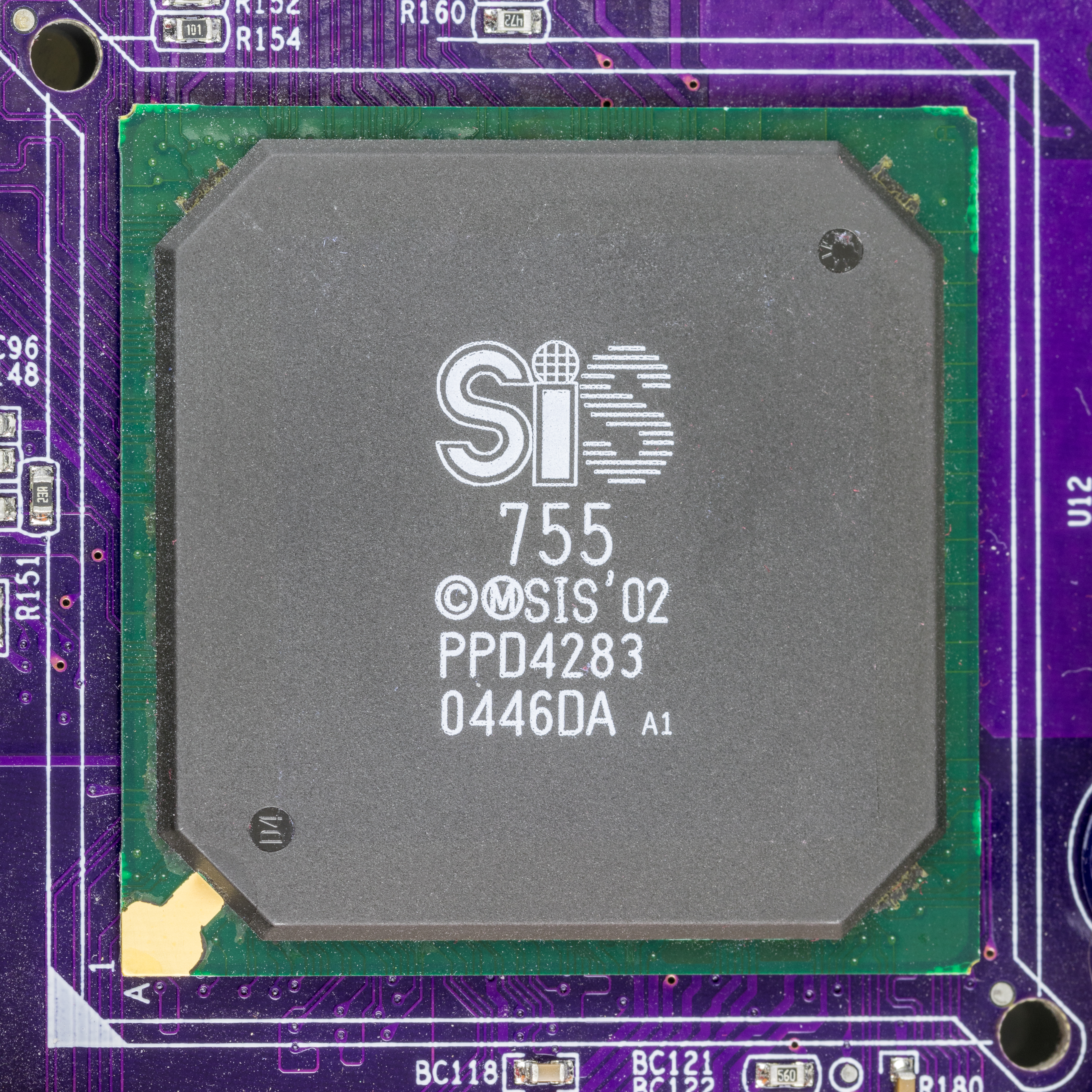 Elitegroup 755-A2 - SiS 755